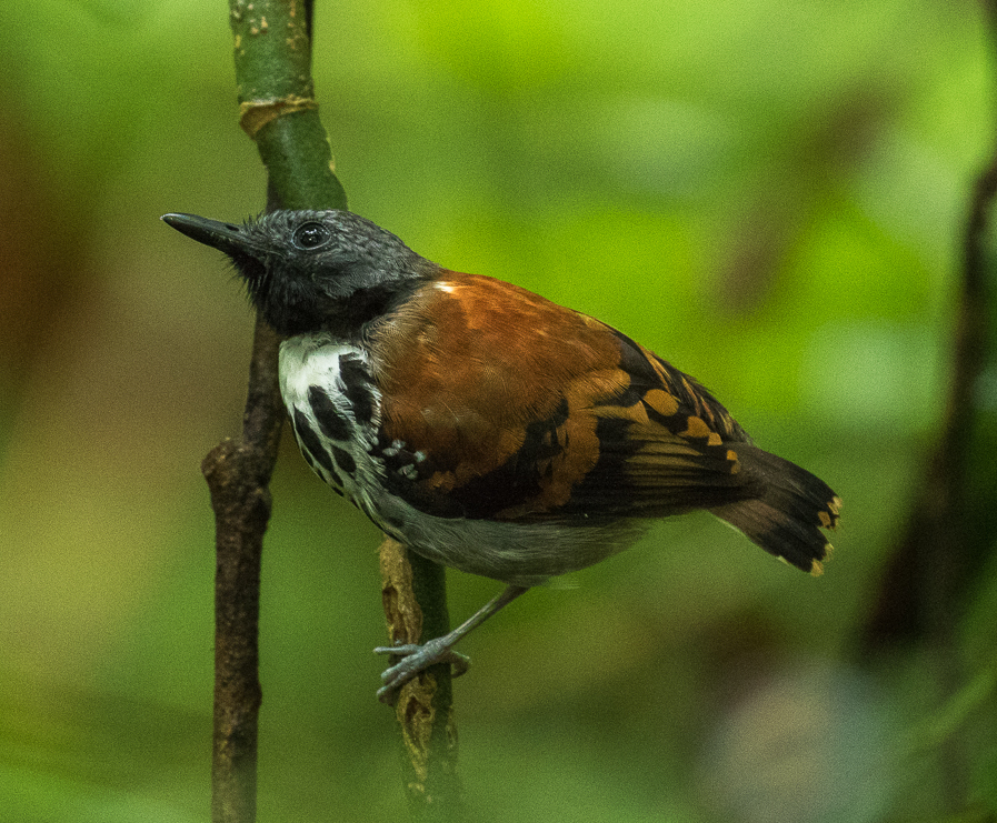 Spotted Antbird - Darien - Panama CD5A9198